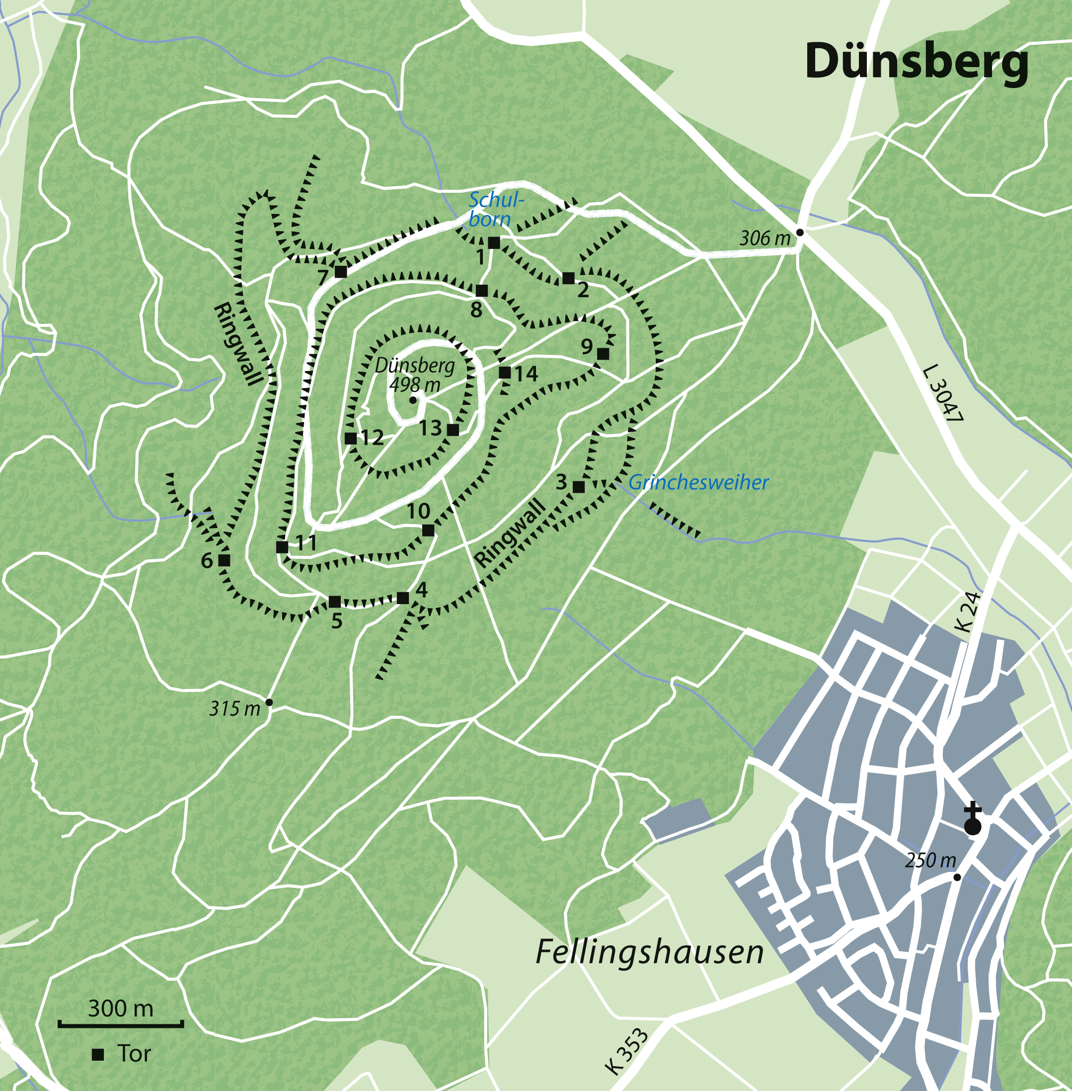 Map of Dünsberg near Fellingshausen, Germany This map may be incomplete, and may contain errors. Don't rely solely on it for navigation.